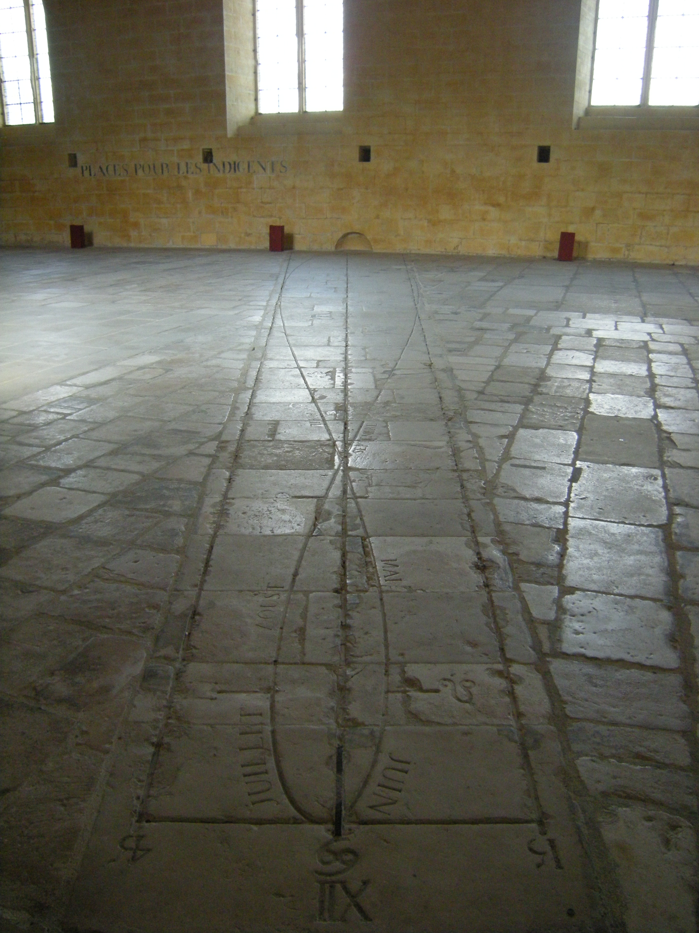 The noon mark of the main room of the Hôtel-Dieu in Tonnerre, France. The Hôtel-Dieu has been built in 1293. .